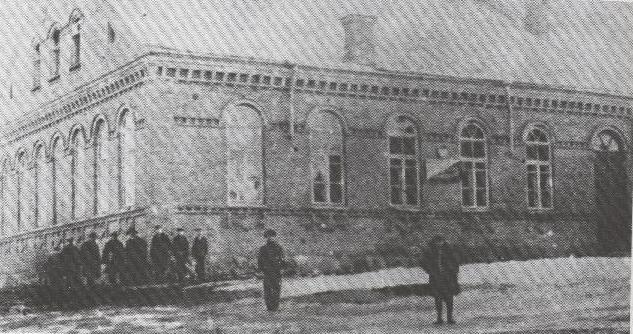 Yeshivas Chofetz Chaim in Radin, Belarus - (then Poland).